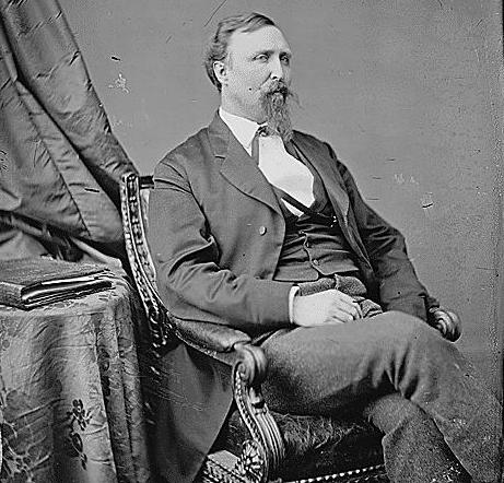 Benjamin Franklin Meyers, US Representative from Pennsylvania